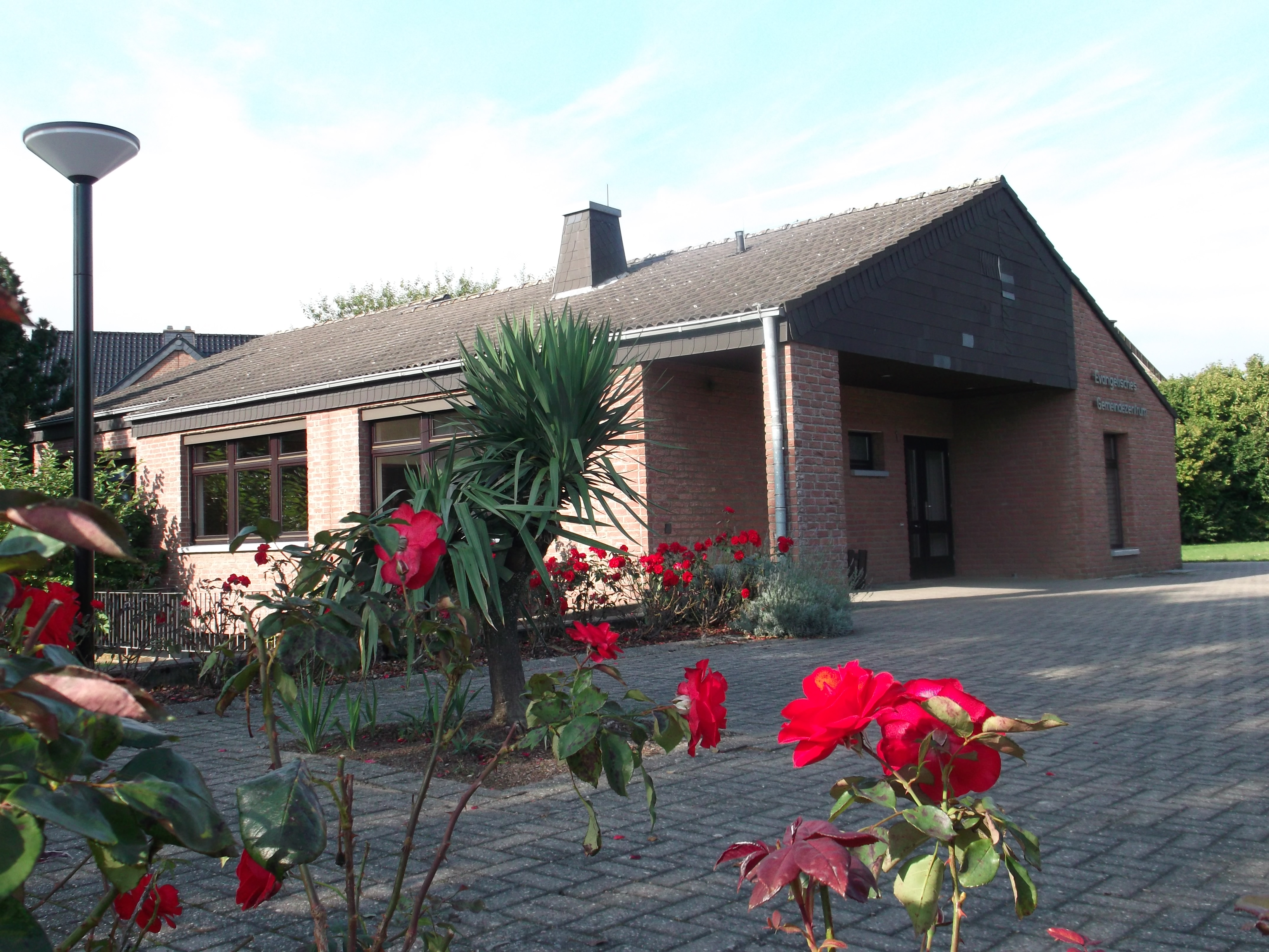 Prot. Church Titz